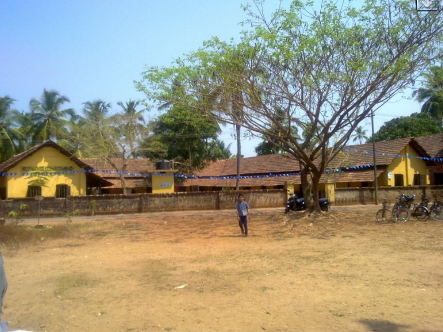 Late Shri C.V. Gopalan Nambiar, who was the founder head master of this institution and very active in the social and education movement had his own insight. He was one among them who understood the importance of education and started this institution in the year 1914,as a full-fledged UP School. He underwent various hardships to sustain this institution. This institution grown-up very dramatically mainly because of the fact that it not only catered the students from Kunhimangalam but also from the other neighbouring villages.